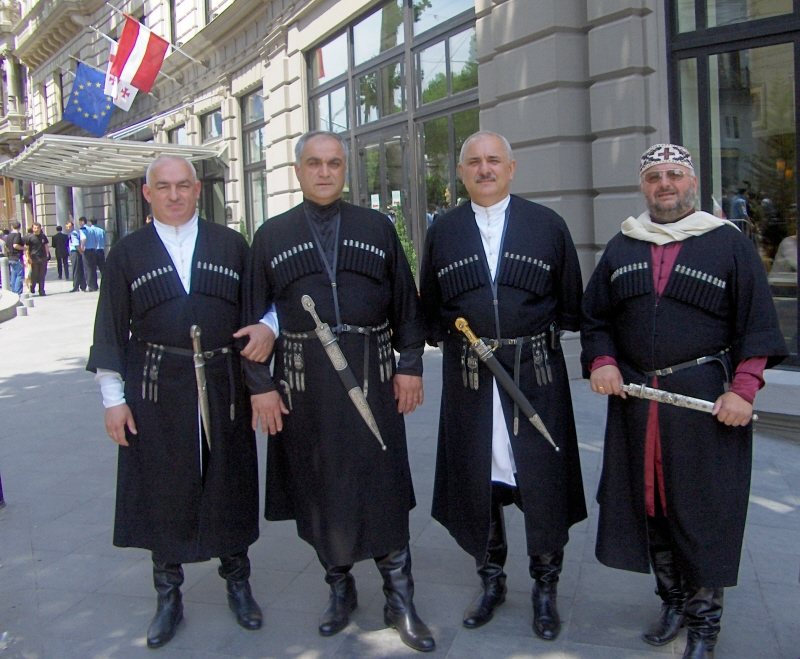 These nice gentlemen didn't speak a lick of English except "Photo?", to which they were happy to oblige. Taken during the Georgian Independence Day Parade in Tbilisi.